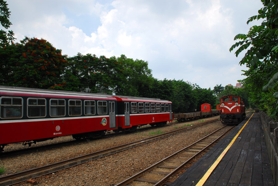 PeiMen Station is one of the train station of ALiShan Railways, a mountain railway in central Taiwan. It's the located within the boundary of ChiaYi City. This photo shows the diesel locomotive and carts of various types parking in the yard of PeiMen Station.中文（台灣）: 北門車站是阿里山森林鐵路沿線上的一座車站，位於嘉義市境內。圖中所見是位於站區內的股道，停著牽引用的柴油機車與各型車廂。